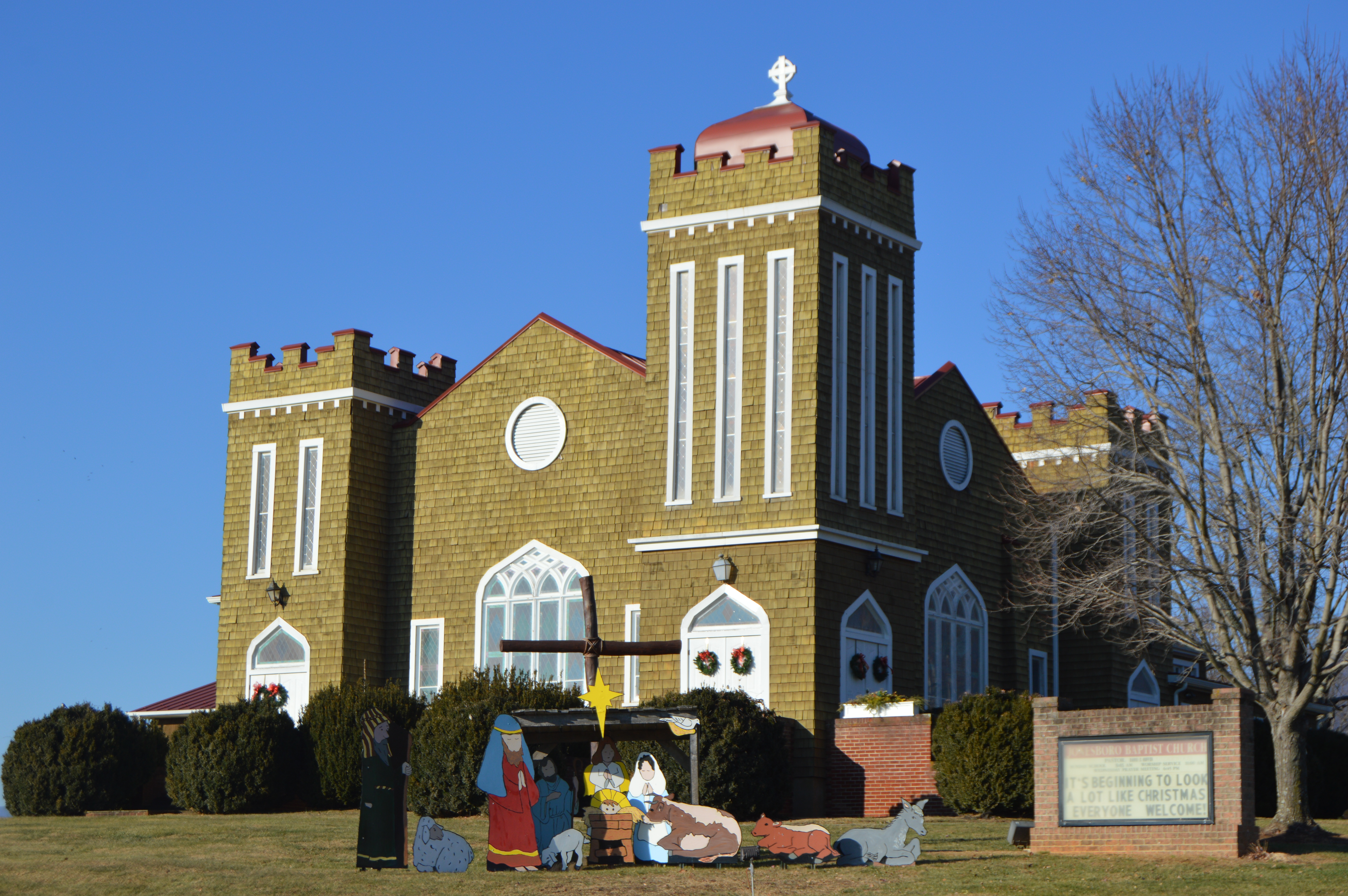 Front of the Jonesboro Baptist Church, located at 9215 State Route 151 at Jonesboro in Nelson County, Virginia, United States.